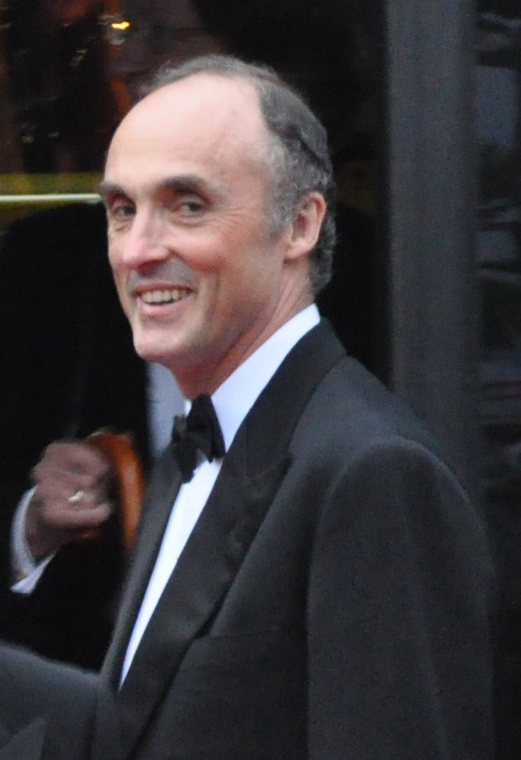 Wedding of Victoria, Crown Princess of Sweden, and Daniel Westling; Arrival of members for the Gouvernment and Swedish and foreign guests of hounour to the Riksdag's Gala Performance at Konserthuset